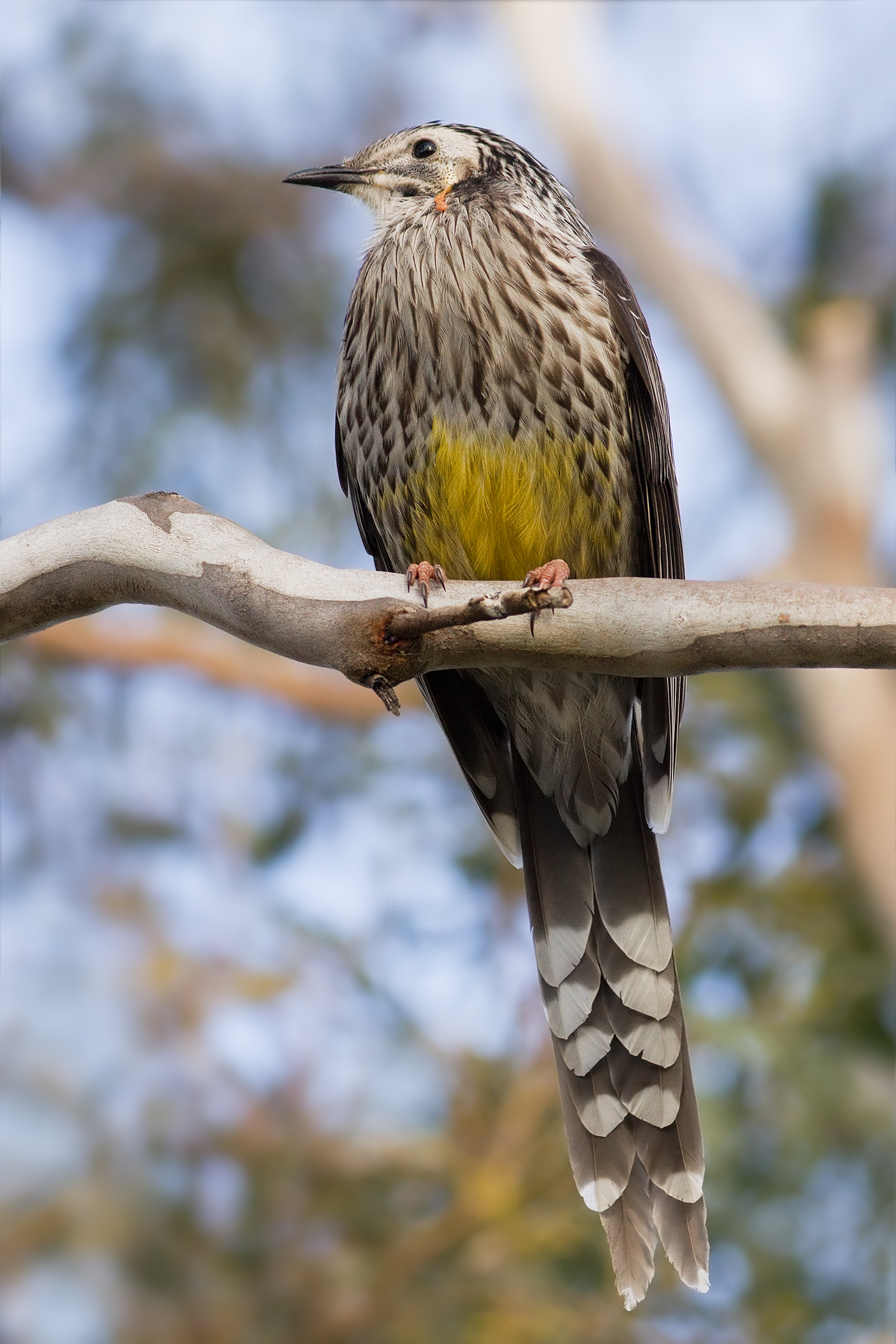 Yellow Wattlebird (Anthochaera paradoxa), Austin's Ferry, Tasmania, Australia